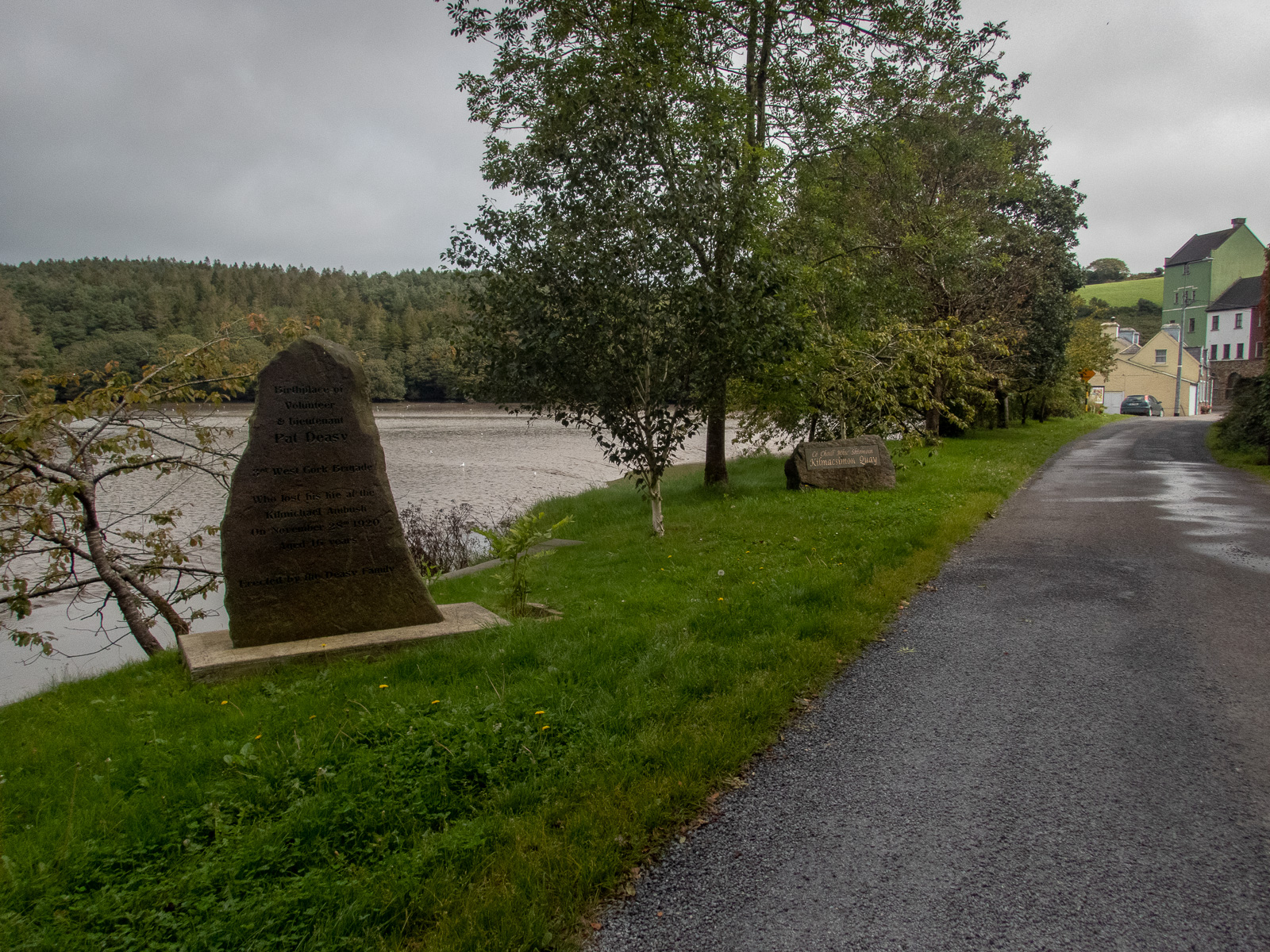 The Deasy memorial at Kilmacsimon